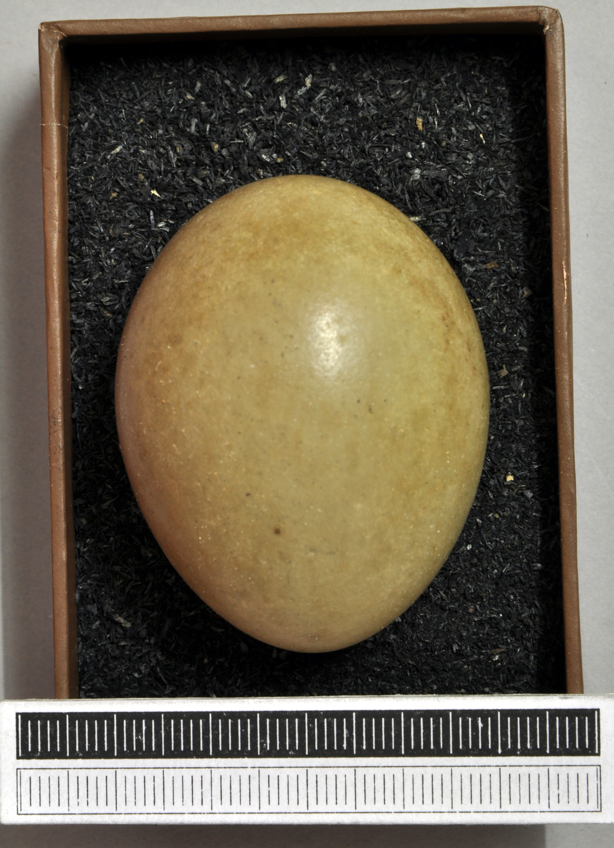 Little bustard Tetrax tetrax , egg, Coll. Museum Wiesbaden